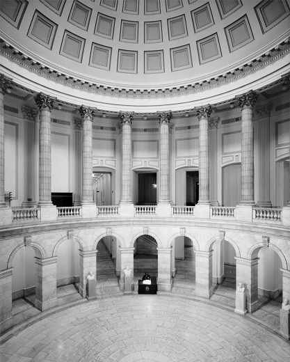 The Rotunda of the Cannon House Office Building. Image taken from the public domain Architect of the Capitol website